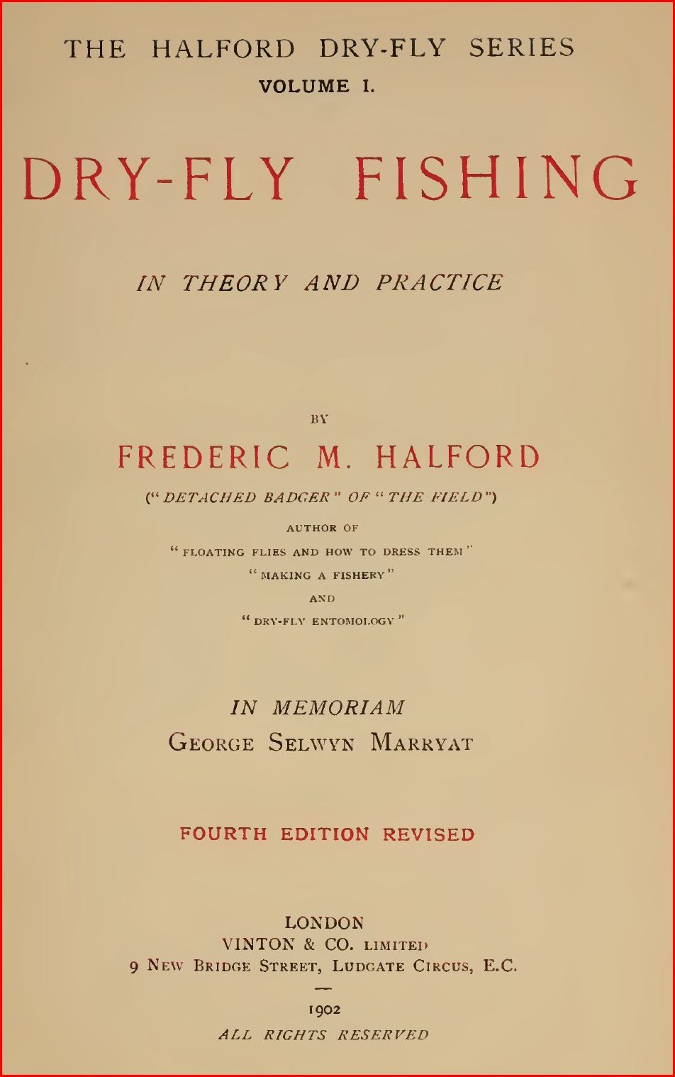 Title page from: Halford, Frederic M. (1902) Dry Fly Fishing in Theory and Practice (No. 1 of Halford Dry Fly Series (4th revised) ed.), London: Vinton & Co. Limited